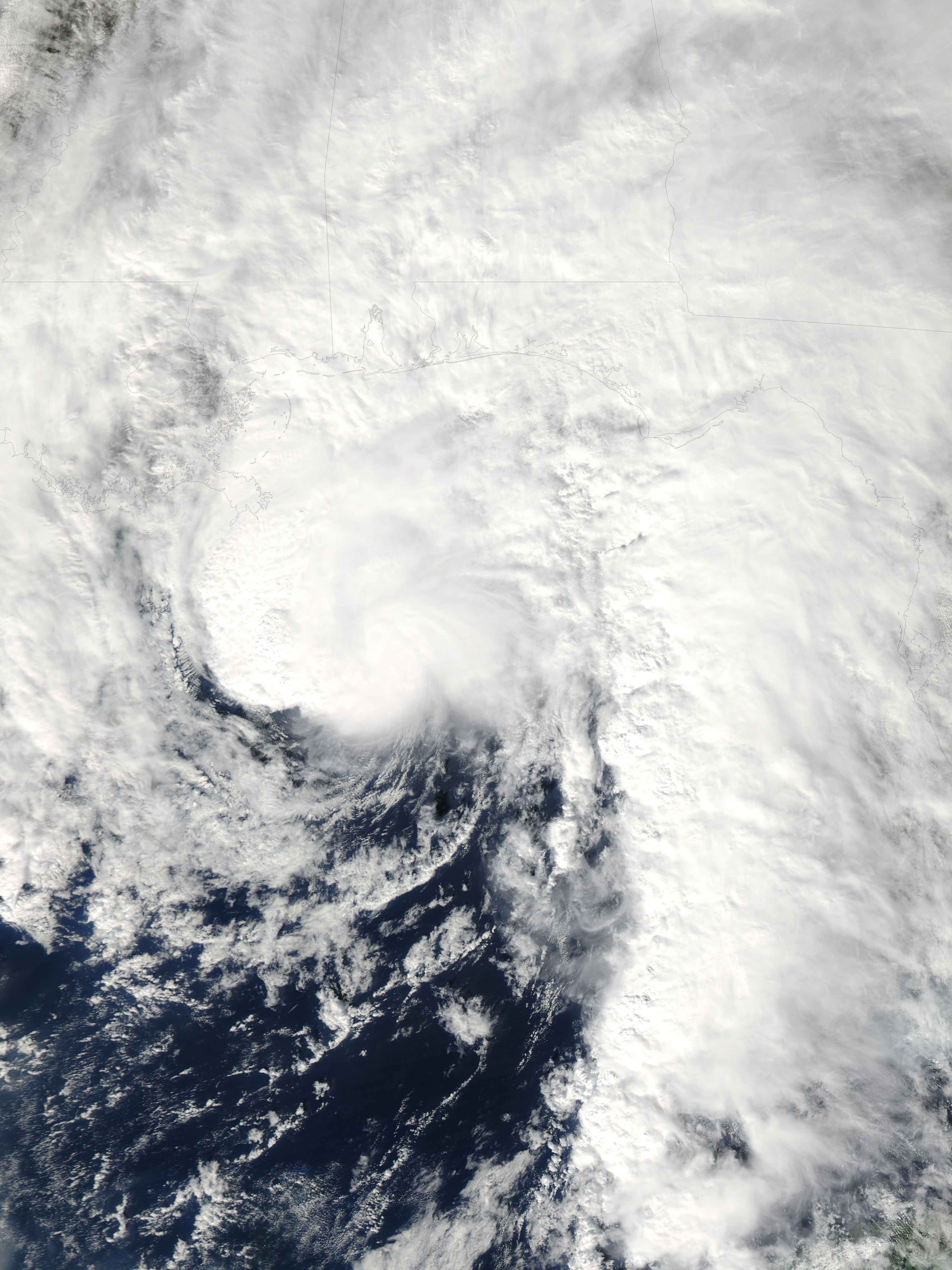 Ida maintains a roughly circular shape off the coasts of Louisiana, Mississippi, and Alabama. Immediately to the east, a wall of clouds stretches southward over the Gulf of Mexico west of Florida. Storm clouds also extend far inland over the Gulf states.